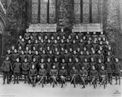 A formal group portrait of instructors and cadet pilots of the Royal Flying Corps at Oxford, England. The pilot cadets were part of a batch of 200 men recruited from the Australian Imperial Force for training as pilots in the Royal Flying Corps. The photograph was taken in front of an Oxford University college. Among the group are Cedric Howell (far left, back row), Charles Kingsford-Smith (tenth from left, second row) and Raymond Brownell (second from right, front row).